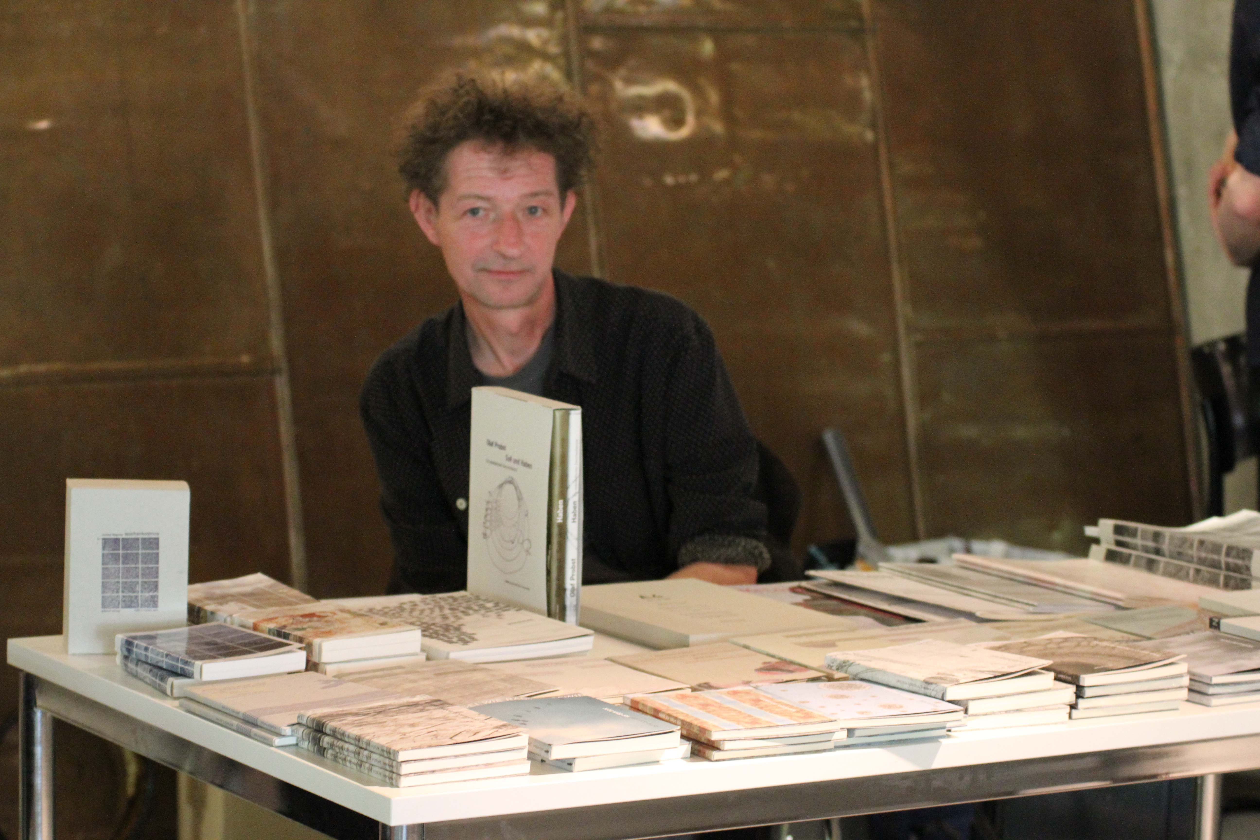 Michael Wagener at the booth of the Gutleut publishing house at the Lyrikmarkt in Berlin